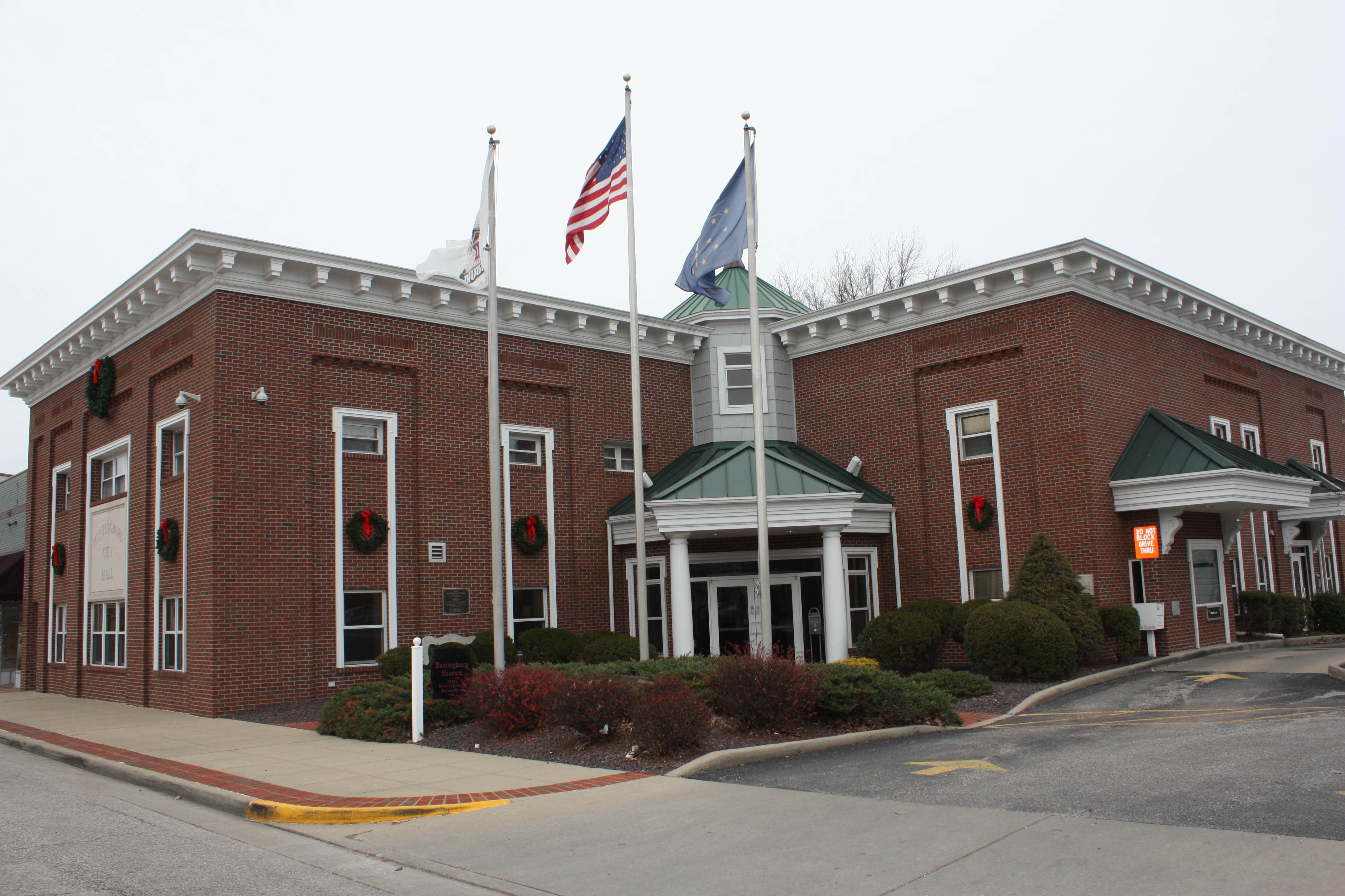 Huntingburg City Hall, 508 East Fourth Street, Huntingburg, Indiana